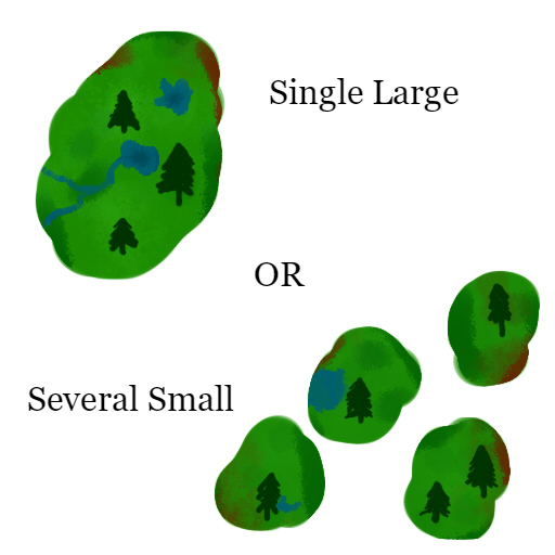 Visual representation of single large or several small habitats.